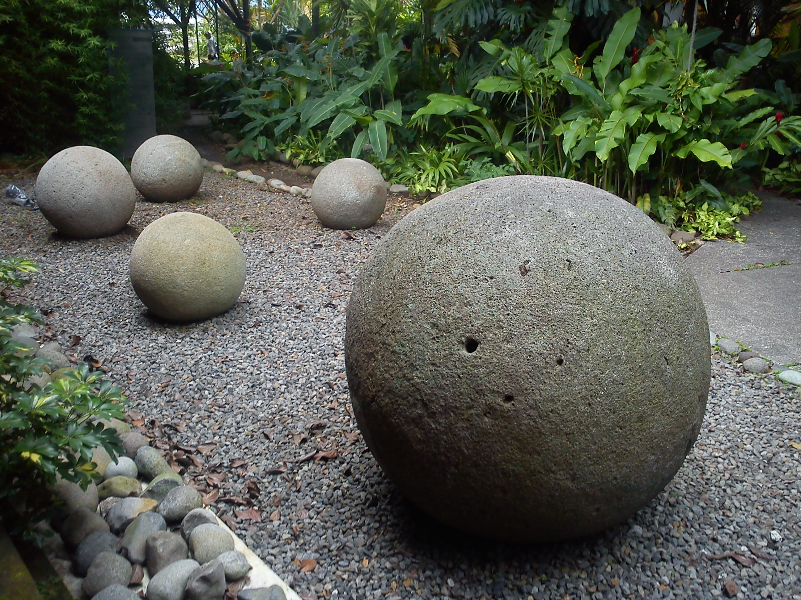 Stone spheres in National Museum of Costa Rica. This pre-columbian artefacts from Diquis's Valley are symbols of national identity for Costa Rican people.